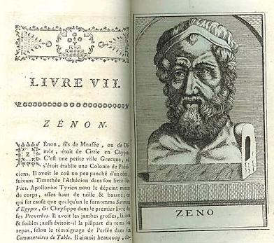 Zeno of Citium, from Diogenes Laertius' Lives, 1761